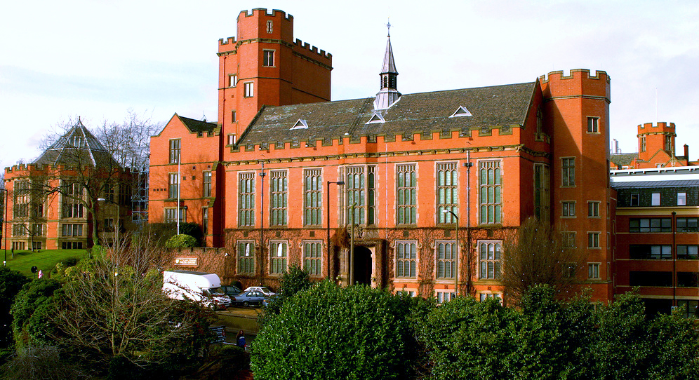 The University of Sheffield